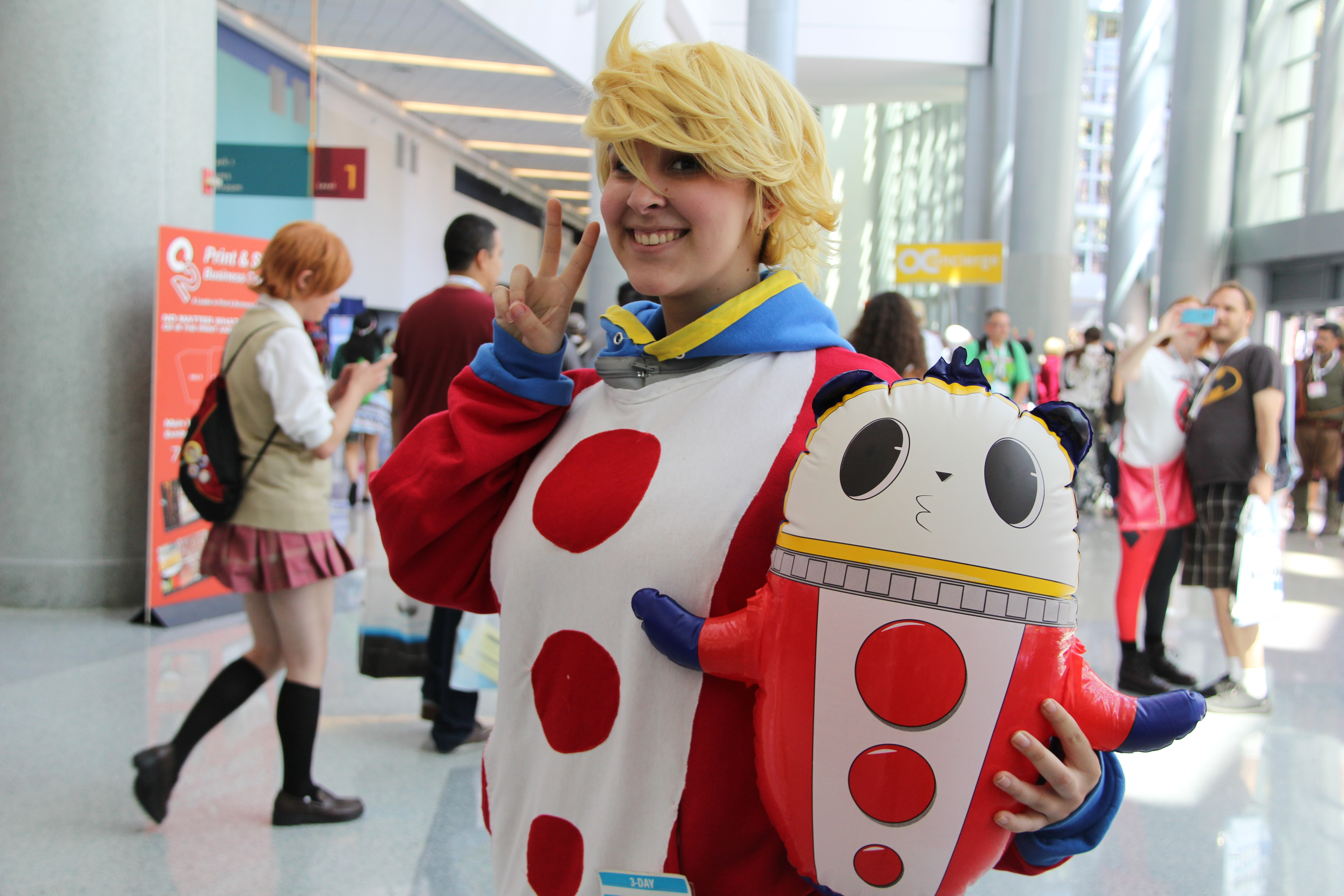 A cosplay of Teddie from Persona 4